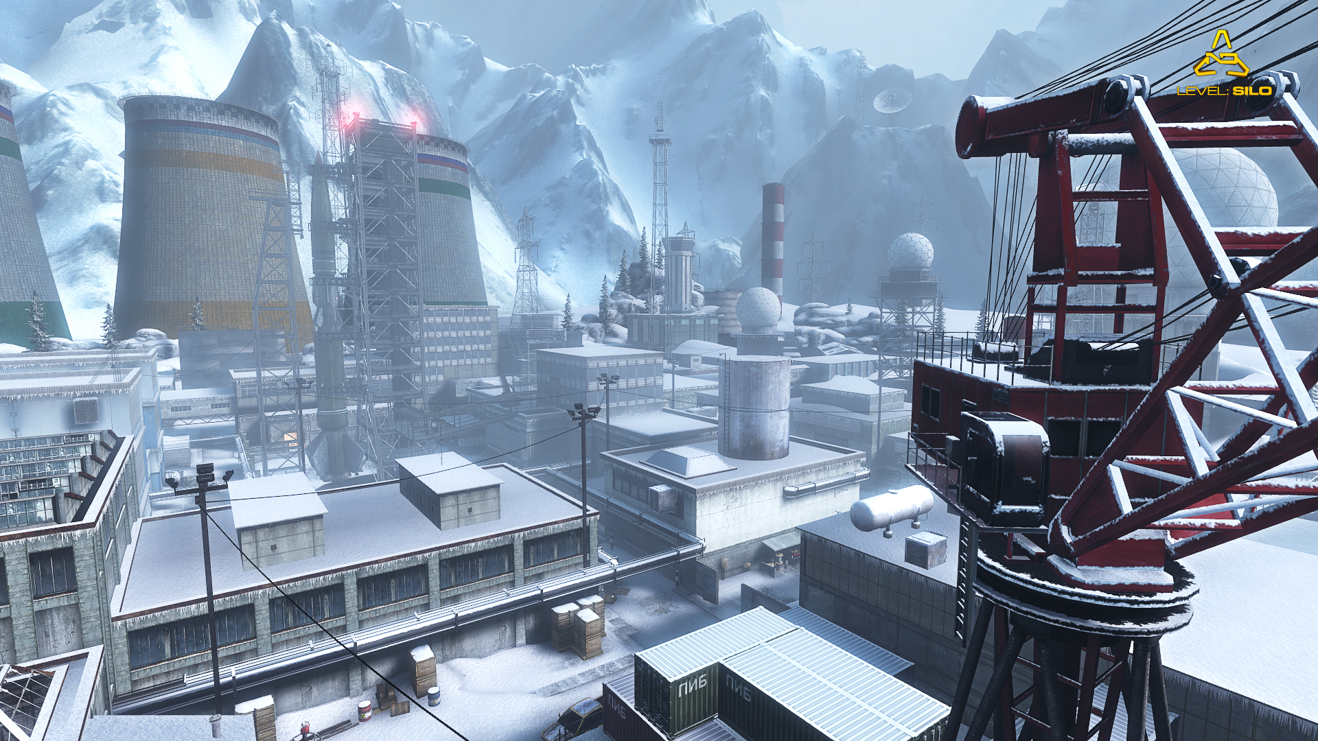 Nuclear Dawn screenshot depicting the Russia based Silo map. Released in 2011, the game was developed by Interwave Studios and built on the Source engine.